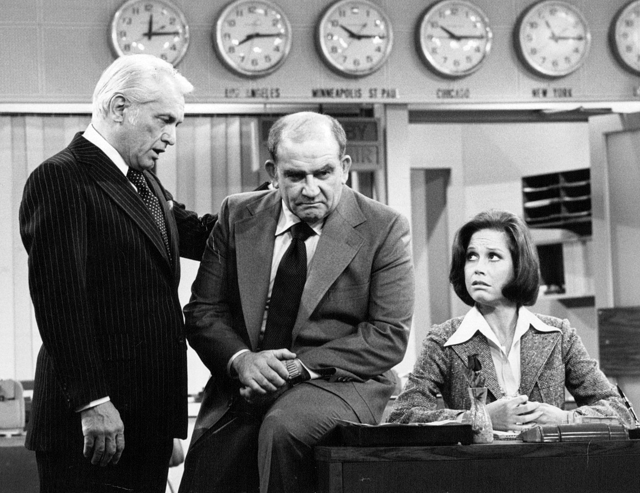 Photo of Ted Knight as Ted Baxter, Ed Asner as Lou Grant and Mary Tyler Moore as Mary Richards from the last episode of The Mary Tyler Moore Show-"The Last Show". After the entire WJM-TV news staff except Ted Baxter has been told they need to find new jobs, Ted clumsily tries consoling a disheartened Lou while Mary watches on the verge of tears.